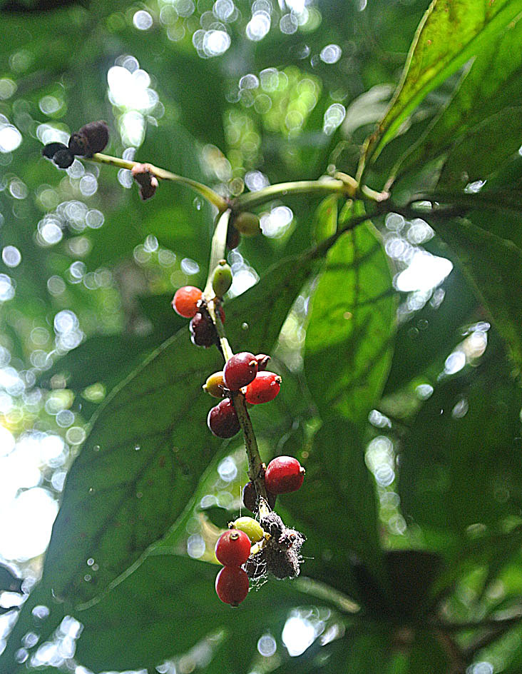 Native to the western Neotropics, from Nicaragua to Bolivia. Jatun Sacha Gardens, Ecuador. In context at